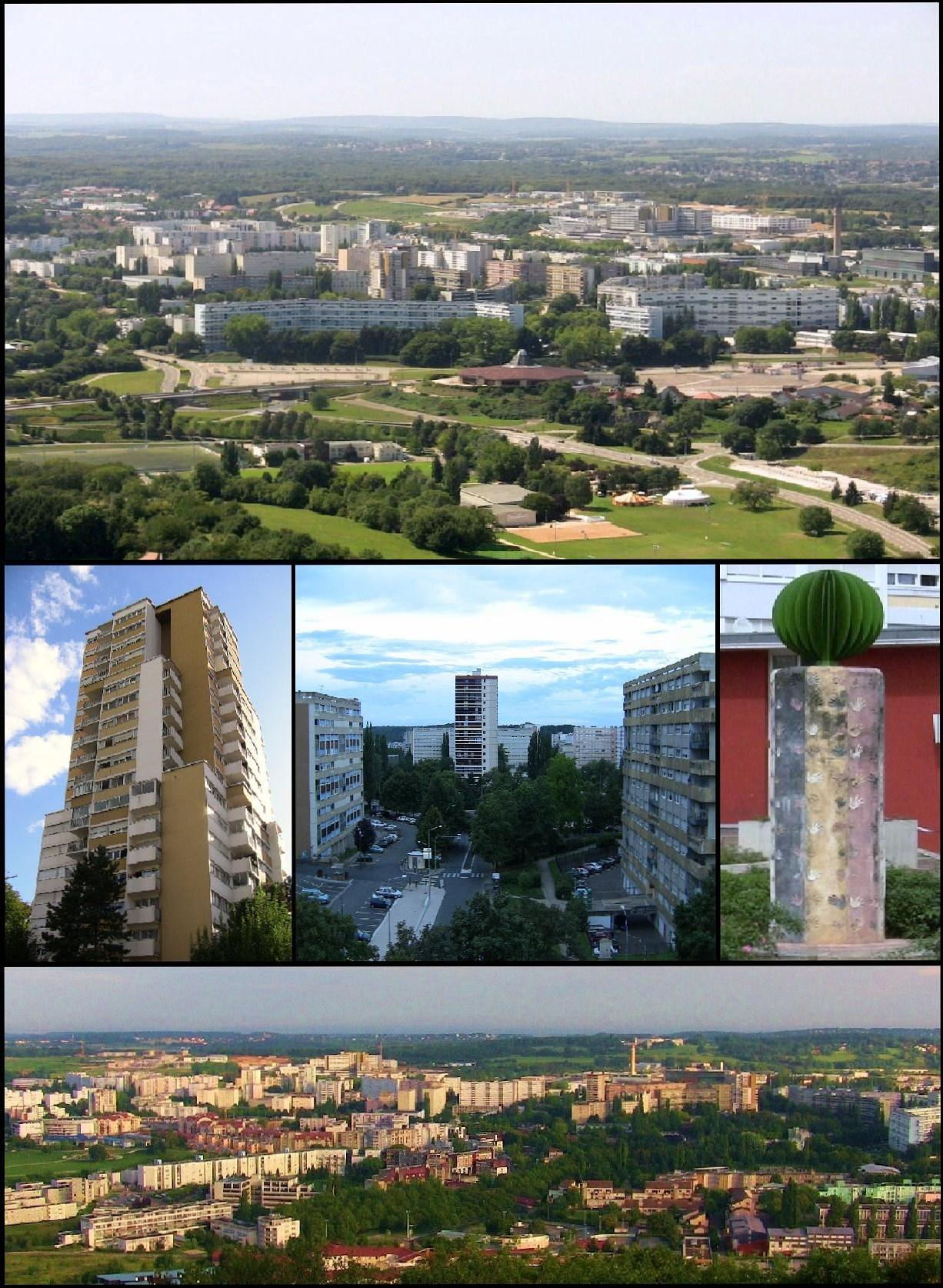 Montage of the area of Planoise, located in Besançon (Doubs, France)